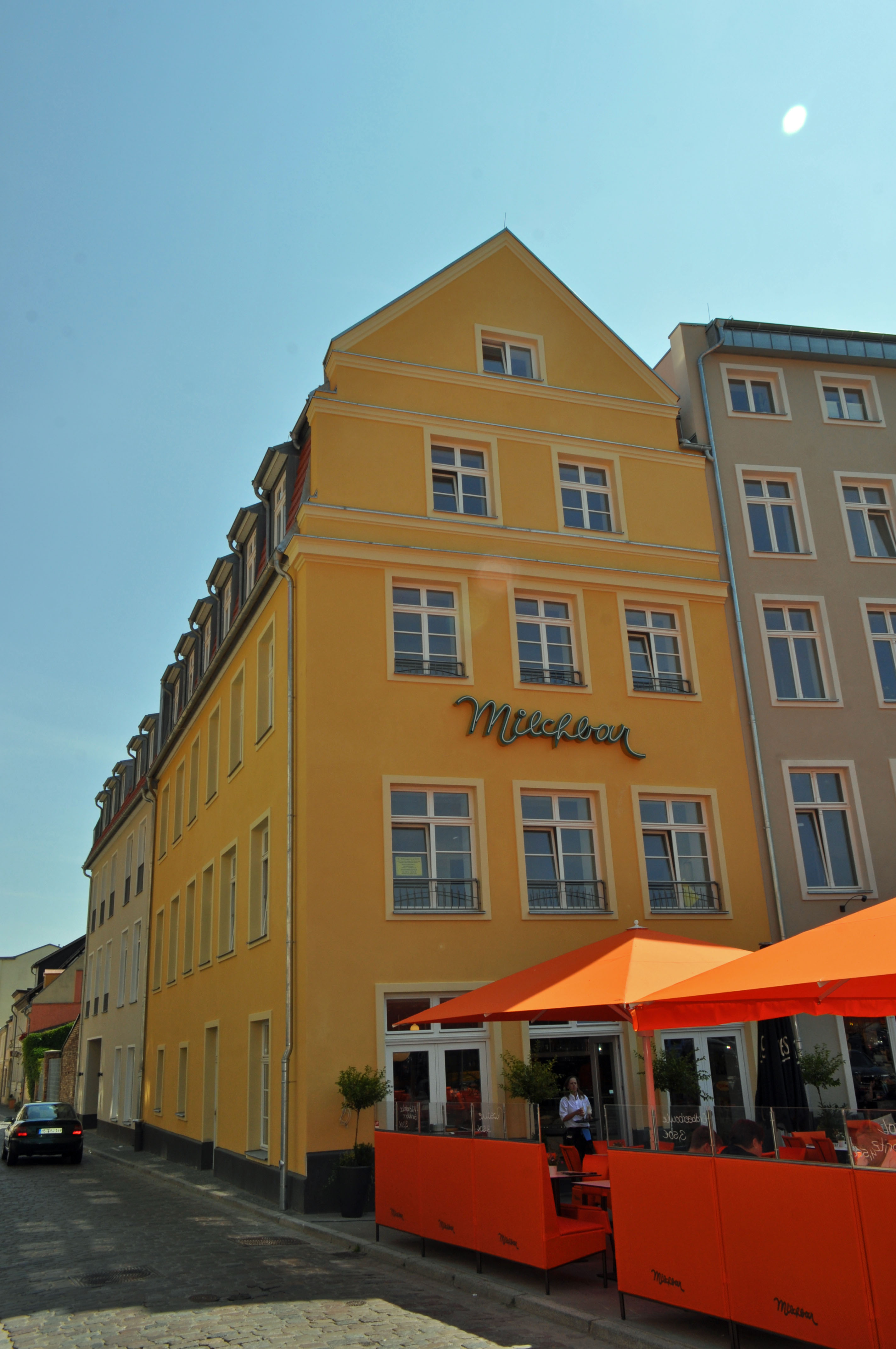 Neuer Markt 13 This is a photograph of an architectural monument.